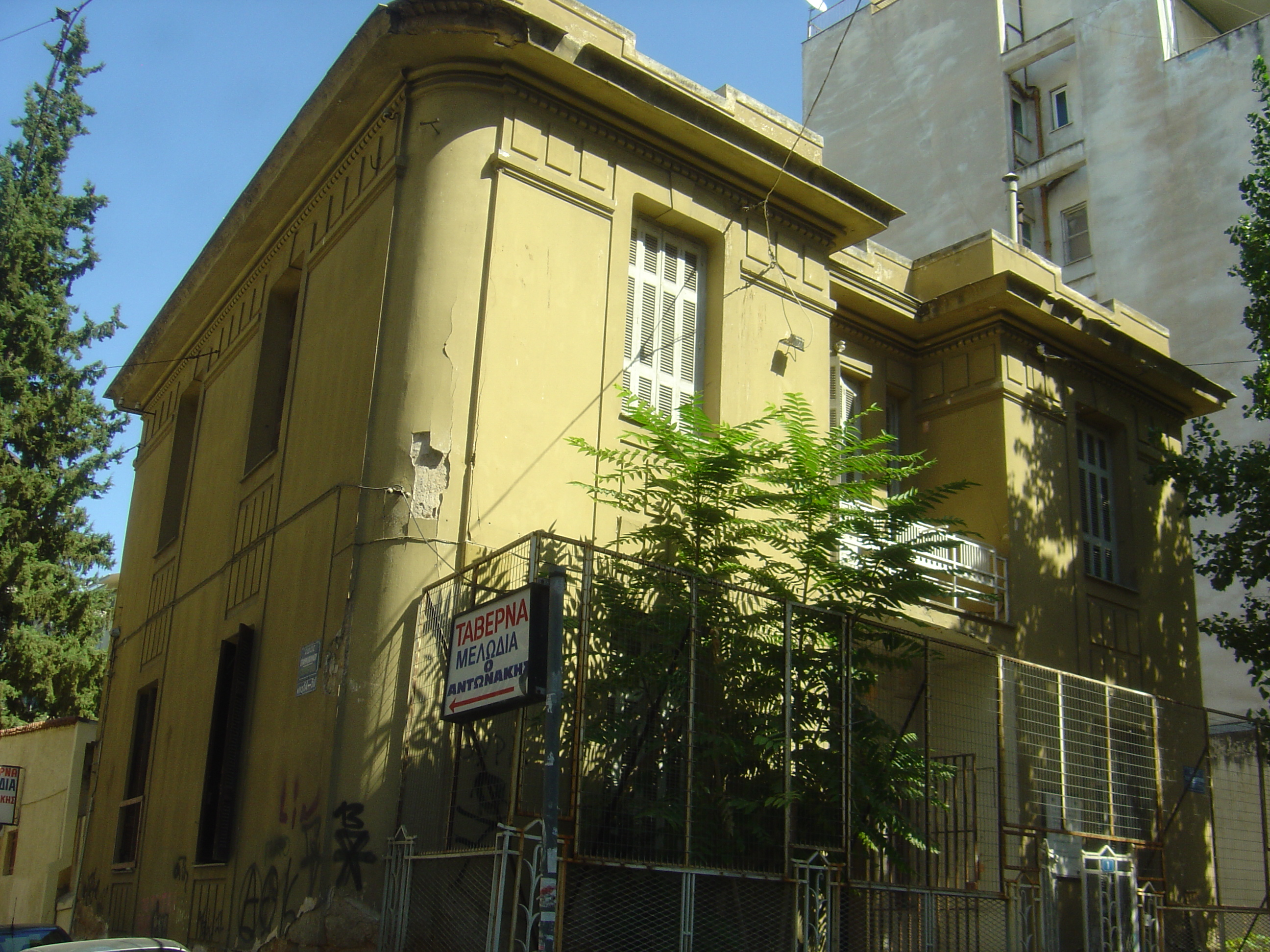 Lela Karagianni house on Greece